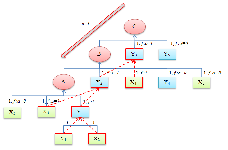 navigation example of a configurate technological structure of a BOM